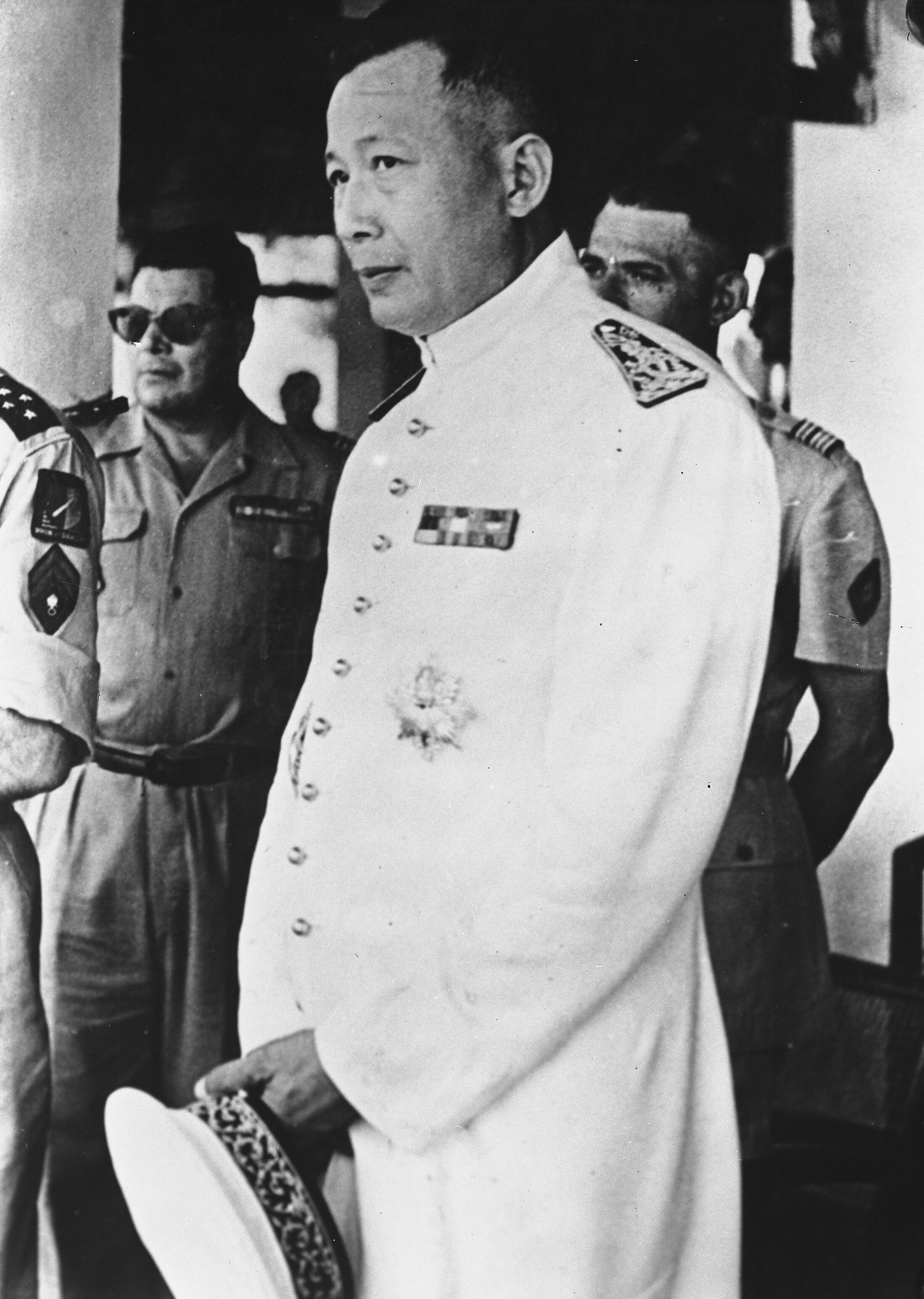 Savang Vatthana in 3 November, 1959, shortly after his informal ascension to the throne upon the death of his father on October 29, 1959.